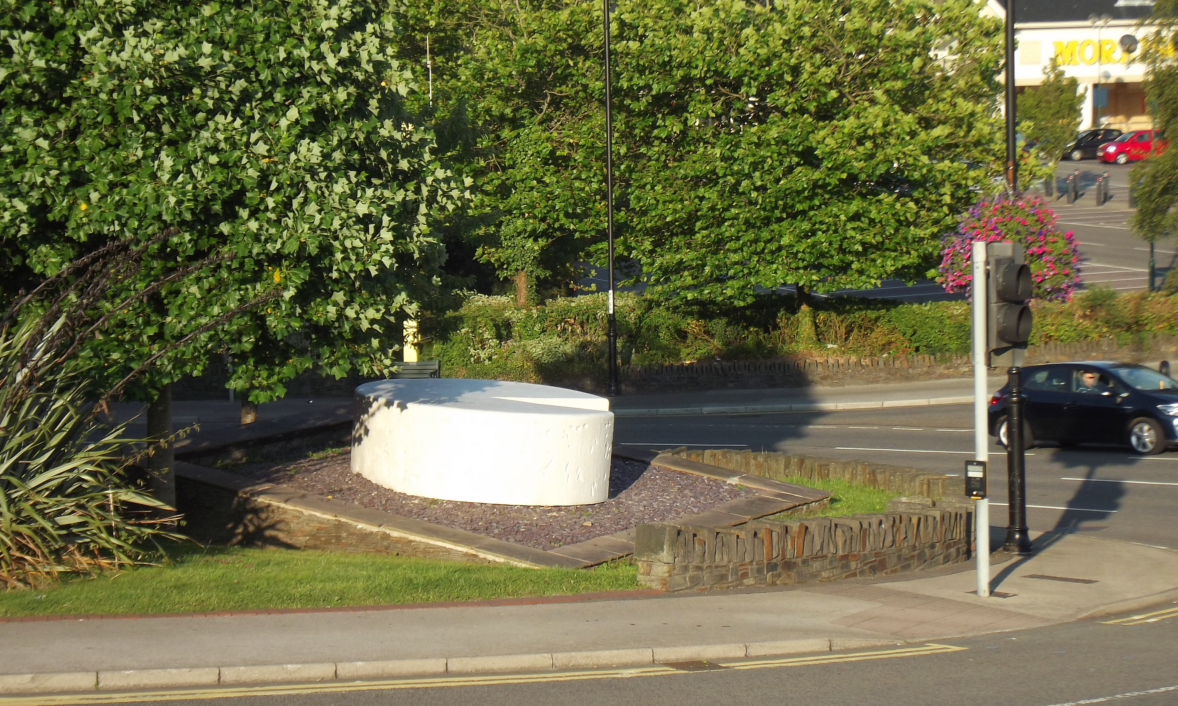 Roundabout dedicated to Caerphilly cheese (Caerphilly, Wales)